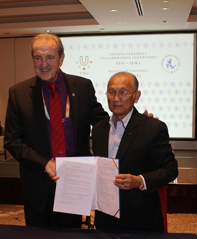 At the IFMA cocktail cultural night the agreement between FISU and IFMA was signed. FISU President Gallien & IFMA President Sakchye Tapsuwan sign the collaboration convention.